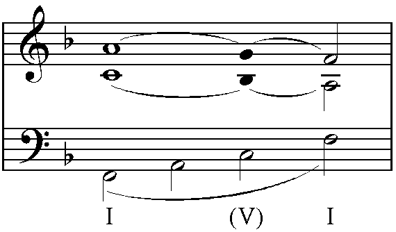 Tonal space according to Schenker